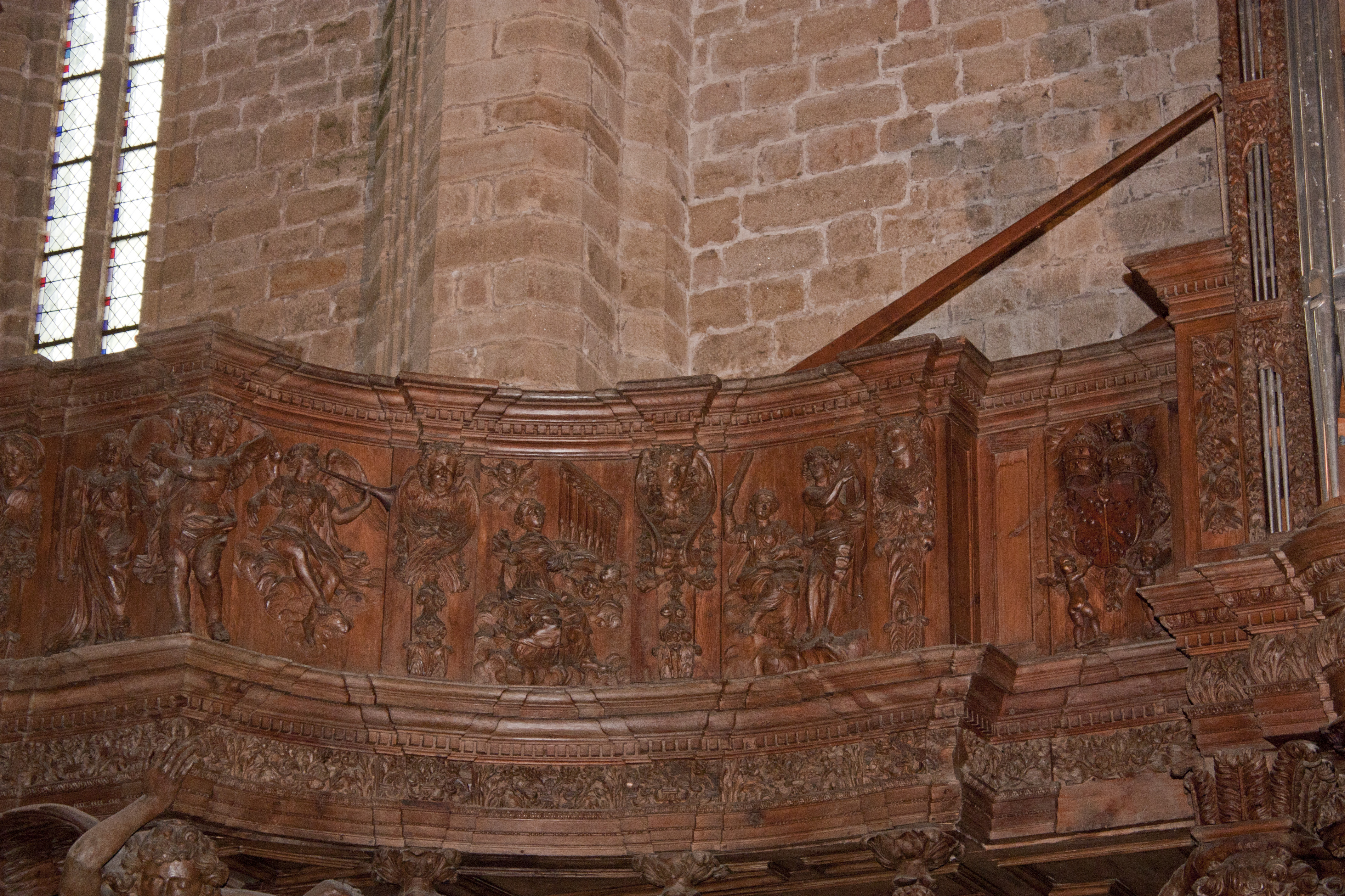 Guardrail of the tribune, on the left.